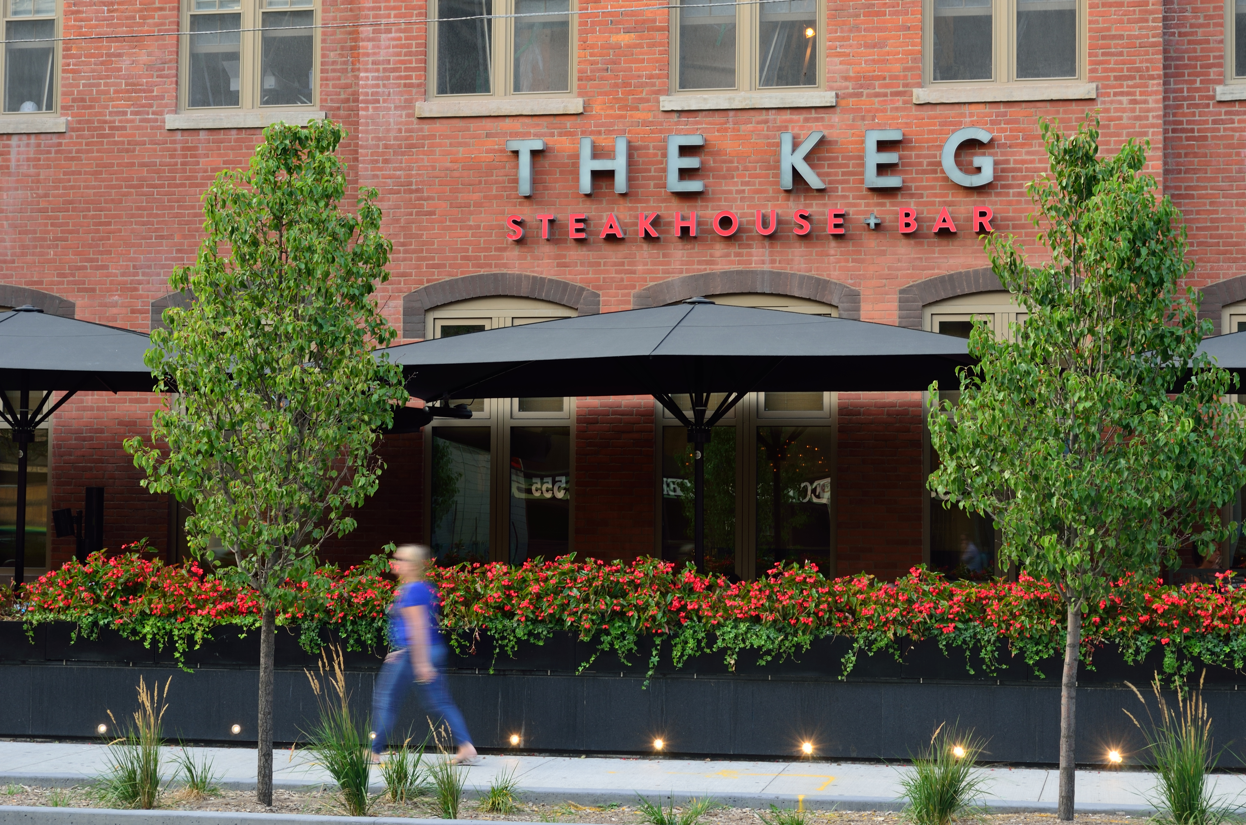 The Keg Steakhouse & Bar at 560 King Street West, Toronto, ON M5V 0L5